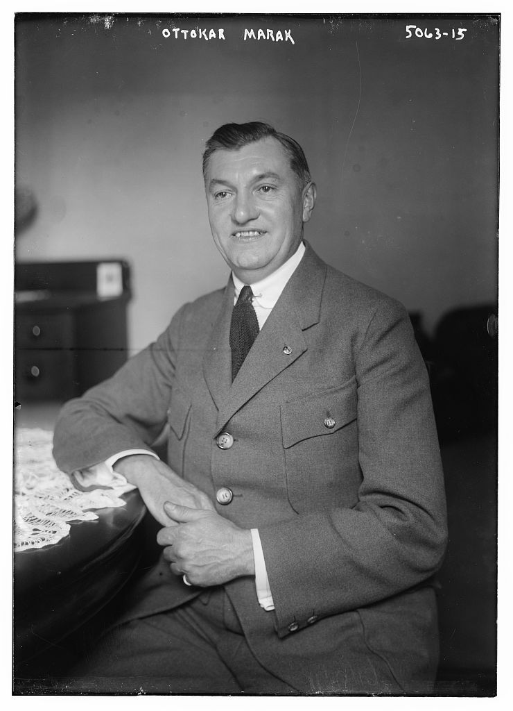 Otakar Mařák circa 1919